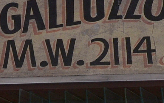 old phone number, shop in Glebe Point Road, Glebe, Sydney